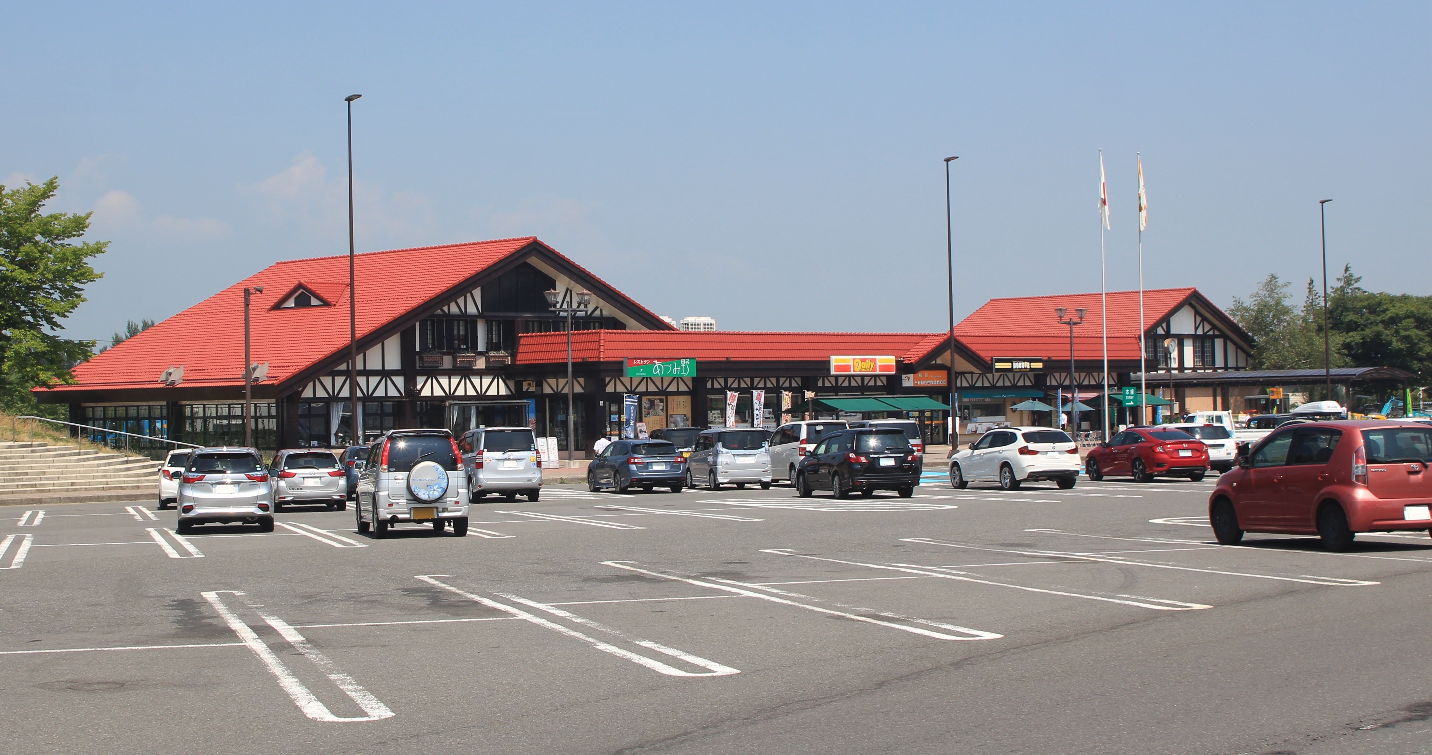 Azusagawa Service Area in Matsumoto, Nagano Prefecture, Japan.